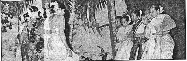 dhalo,kv